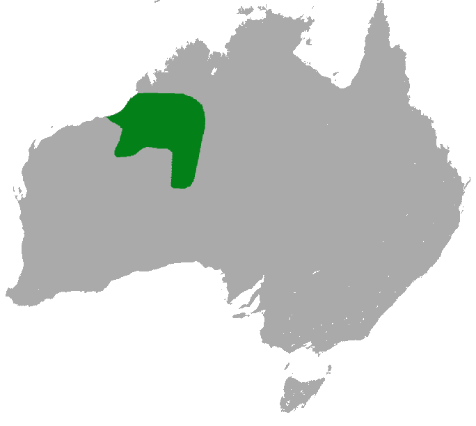 Northern Marsupial Mole (Notoryctes caurinus) range